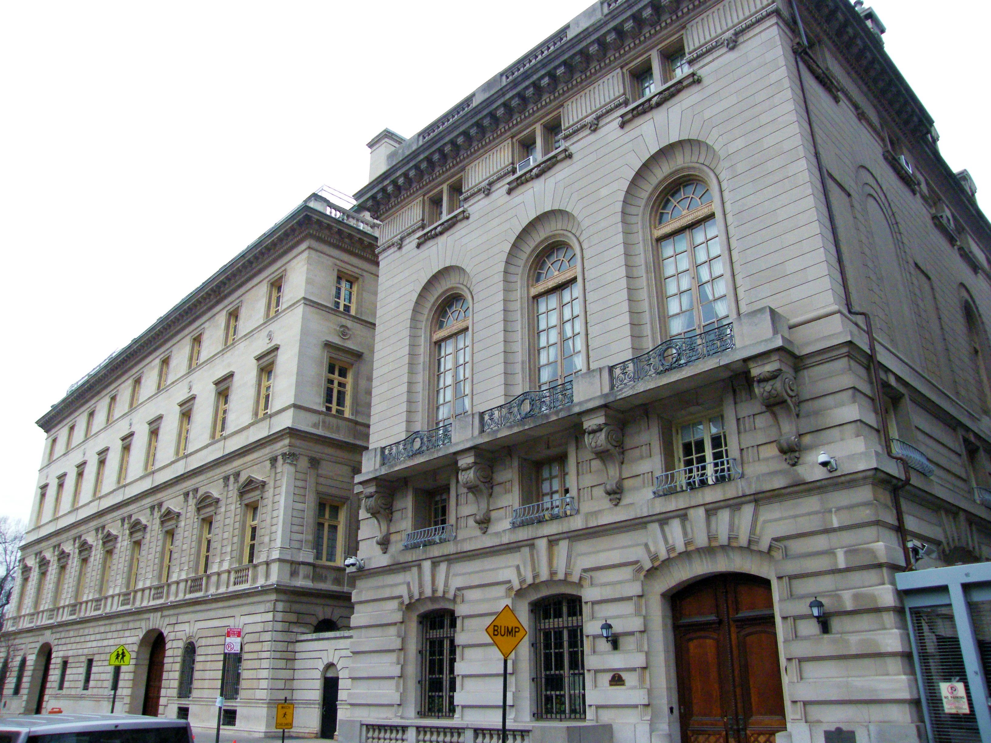 Burden house, 7 East 91st New York City on National Register of Historic Places, now Convent of the Sacred Heart. NYCLPC designation 1974, map 16.